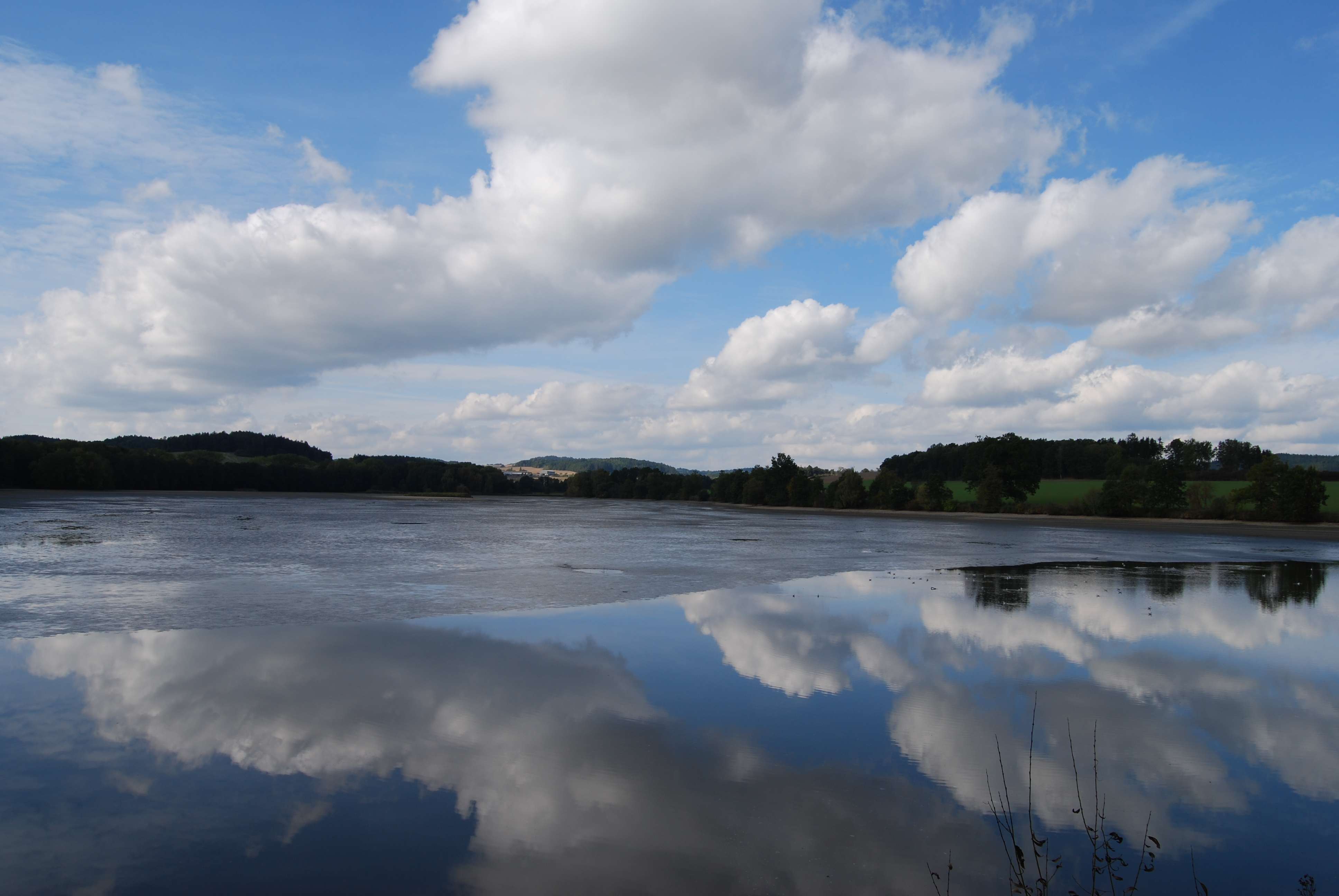 Natural reservation Nový Rybník u Lnář near Tchořovice village in Strakonice District, Czech Republic.